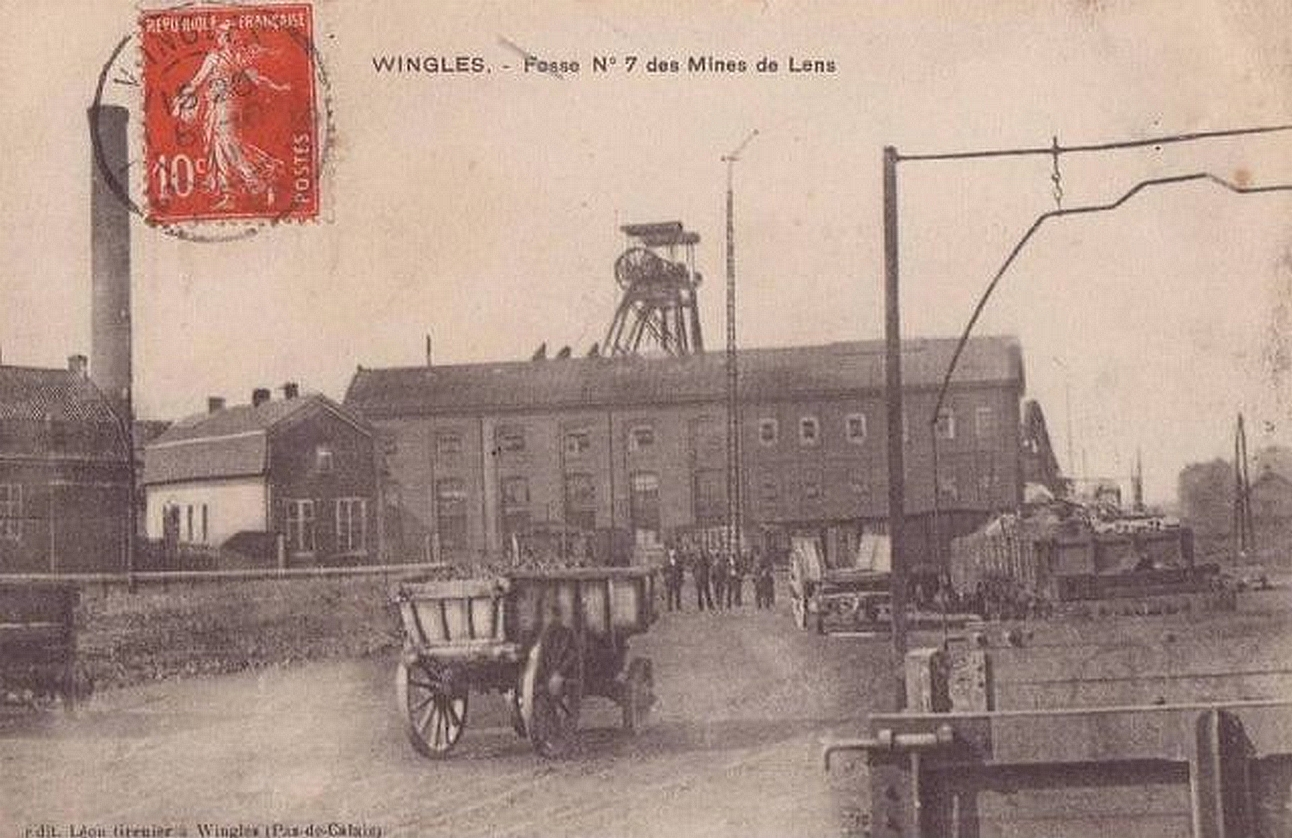 Coalpits n° 7 - 7 bis, Compagnie des mines de Lens, Wingles, Pas-de-Calais, France.